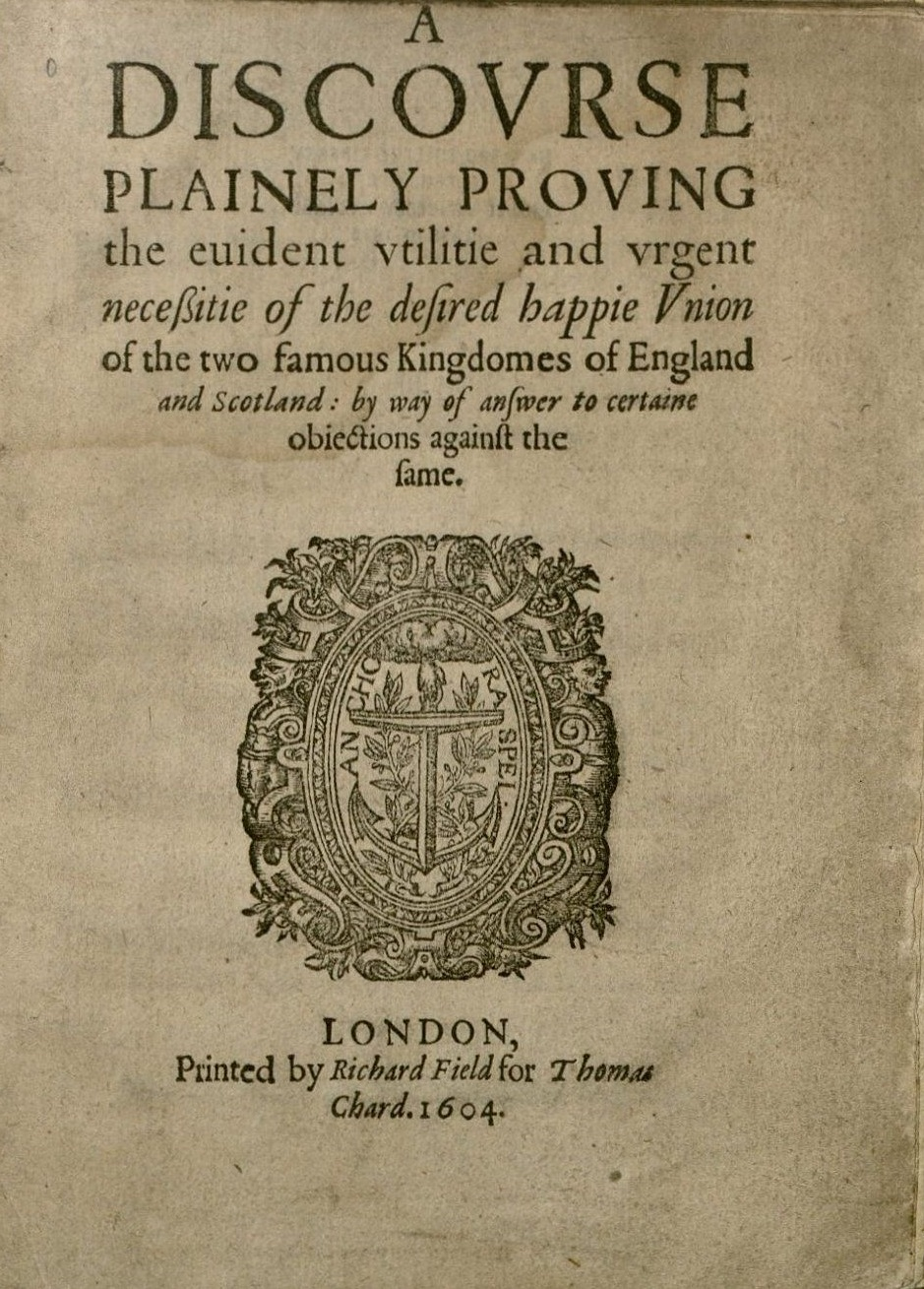 Title page for A discourse plainely proving the euident vtilitie and vrgent necessitie of the desired happie vnion of the two famous kingdomes of England and Scotland, 1604, by John Thornborough (1551-1641). STC 24035, Houghton Library. Harvard University